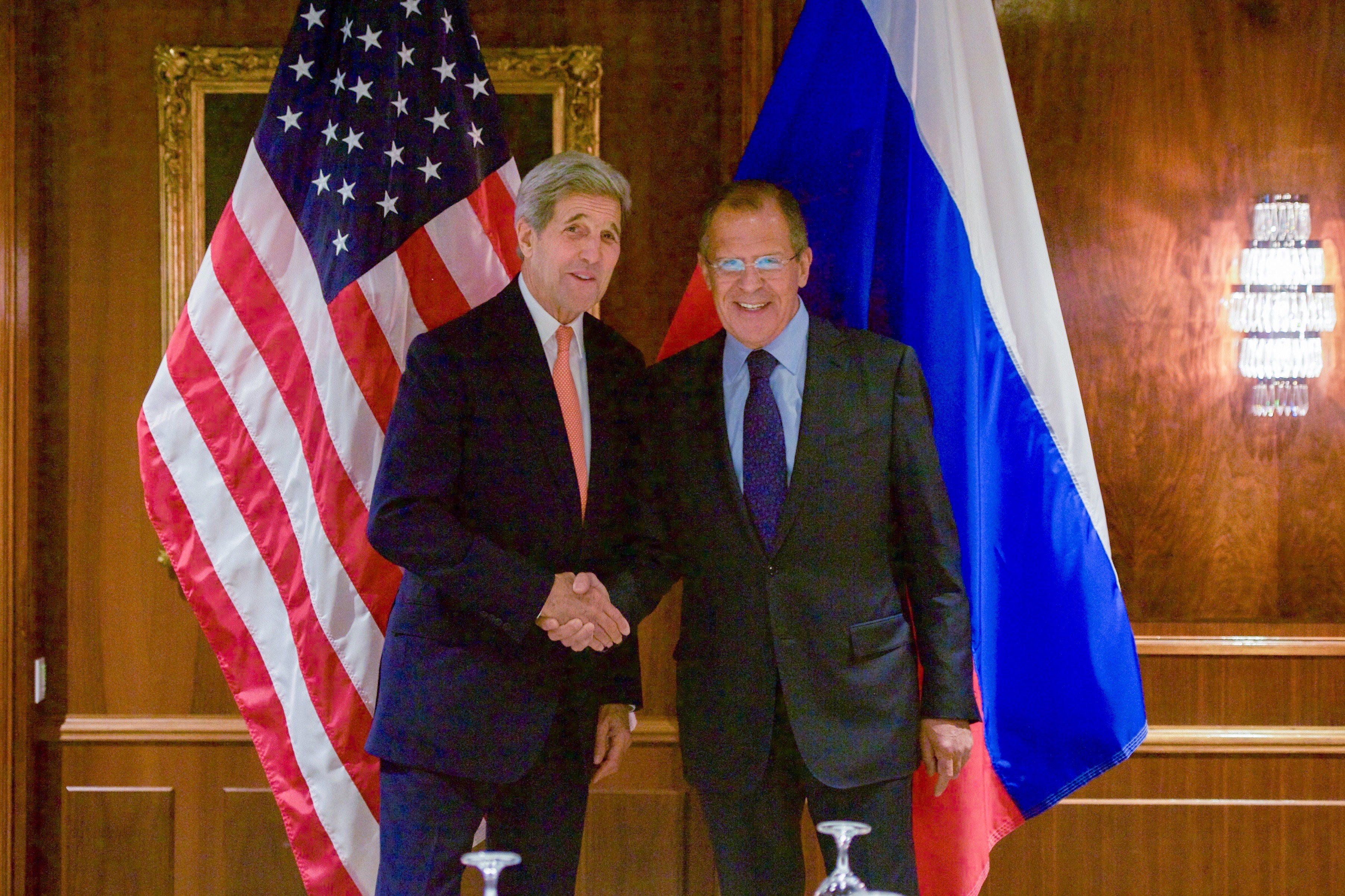 U.S. Secretary of State John Kerry shakes hands with Foreign Minister Sergey Lavrov on October 23, 2015, at the Imperial Hotel in Vienna, Austria, before a bilateral meeting focused on Syria. [State Department photo/ Public Domain]